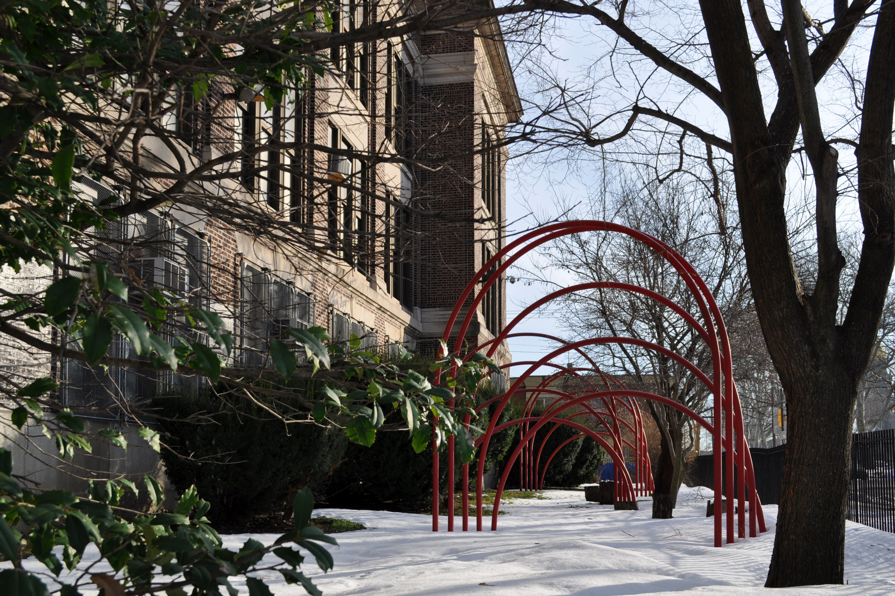 Universal Vare Charter School in Winter, 2100 S 24th St, Philadelphia PA 19145, West Passyunk Neighborhood